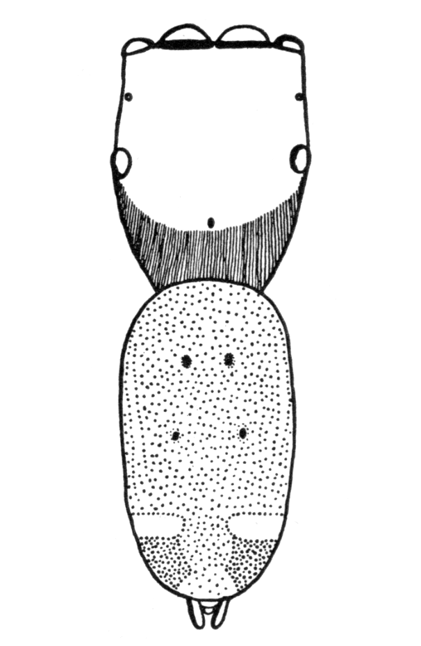 Diagnostic drawing of the dorsal view of the body of a female Donaldius lucidus jumping spider from Panama.